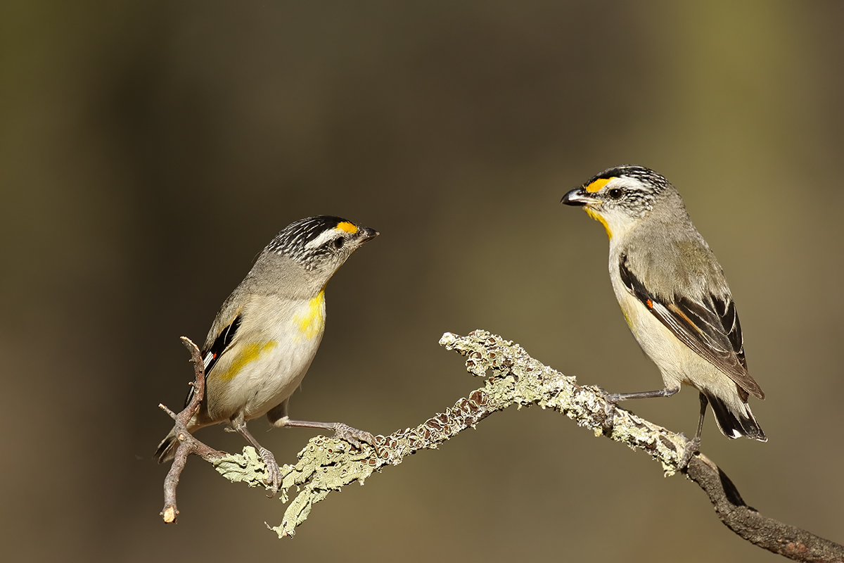 Strangways, Vic.